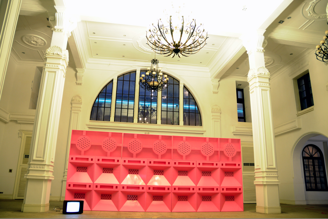 at the site of exhibition by WAZA